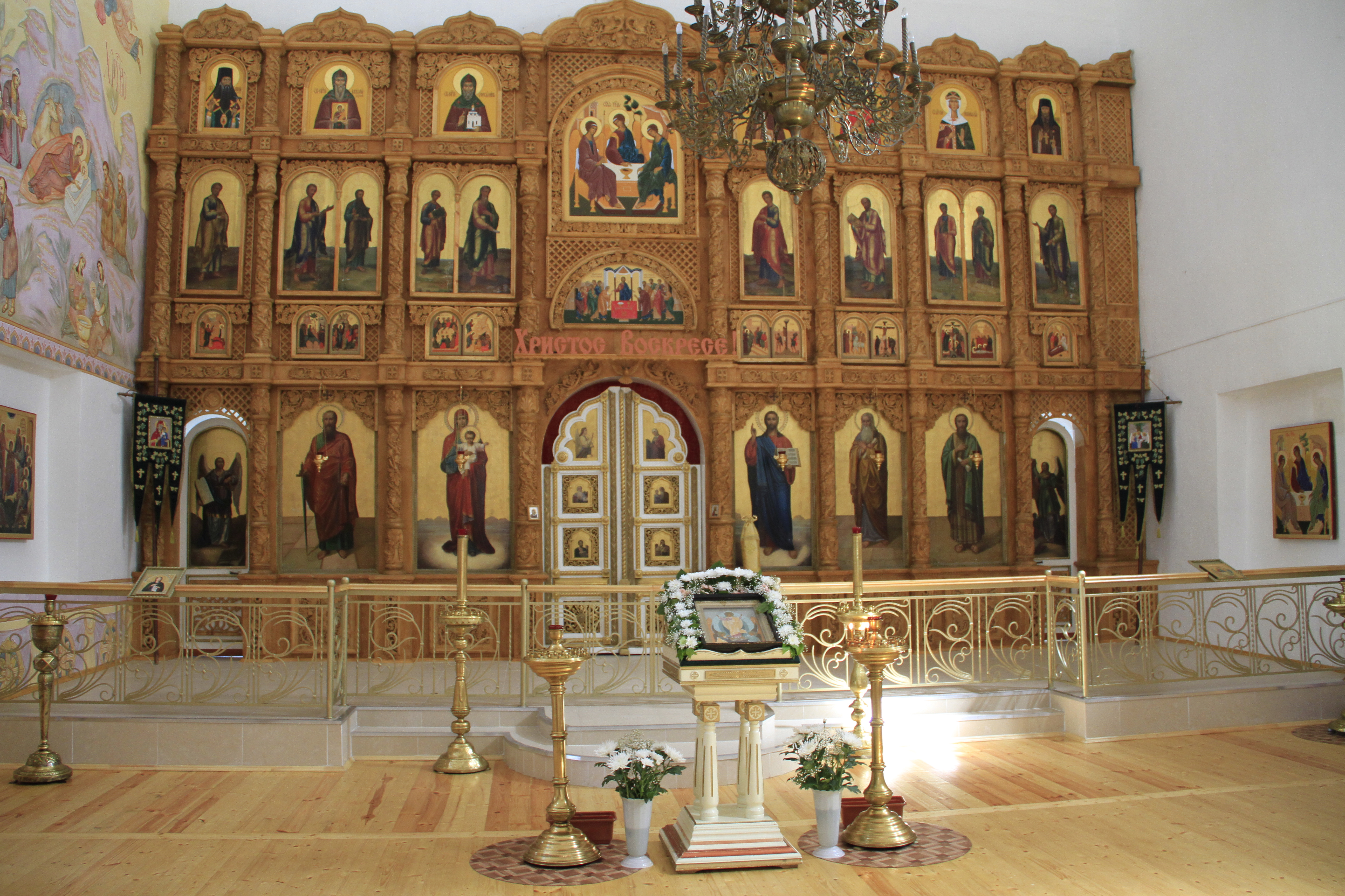 Holy Trinity Cathedral in Vyazma